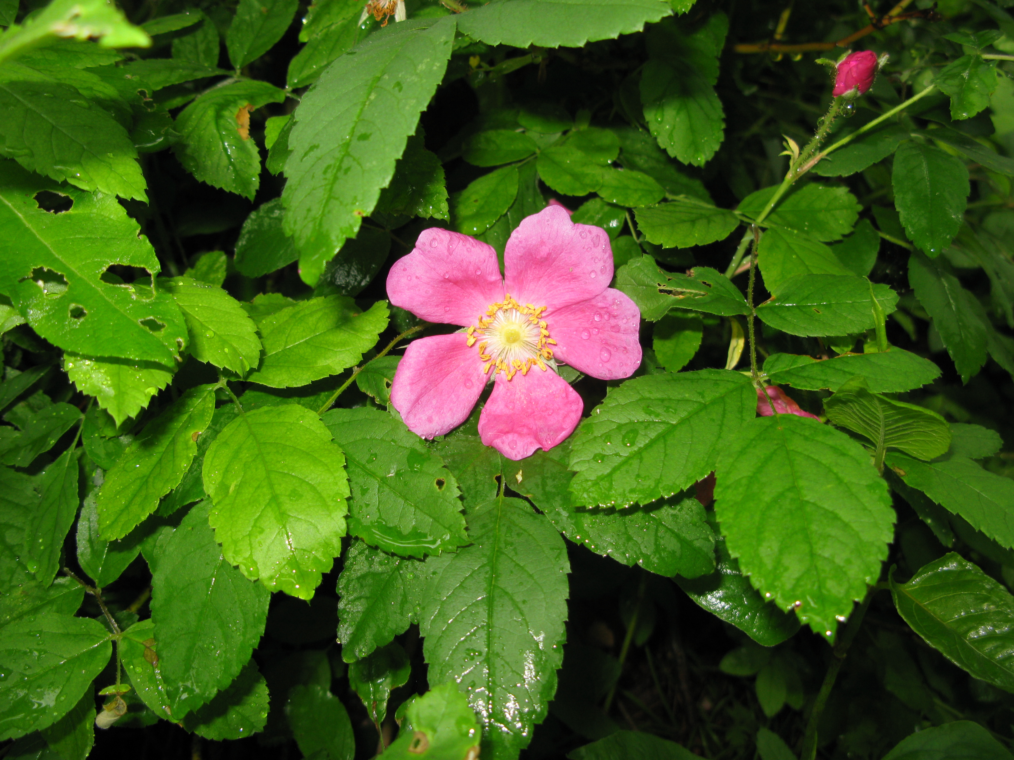 Rosa acicularis, Aizu area, Fukushima pref., Japan